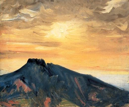 Sunrise over Mount Goken, by Fujishima Takji, The Kagawa Museum, Takamatsu, Kagawa, Japan